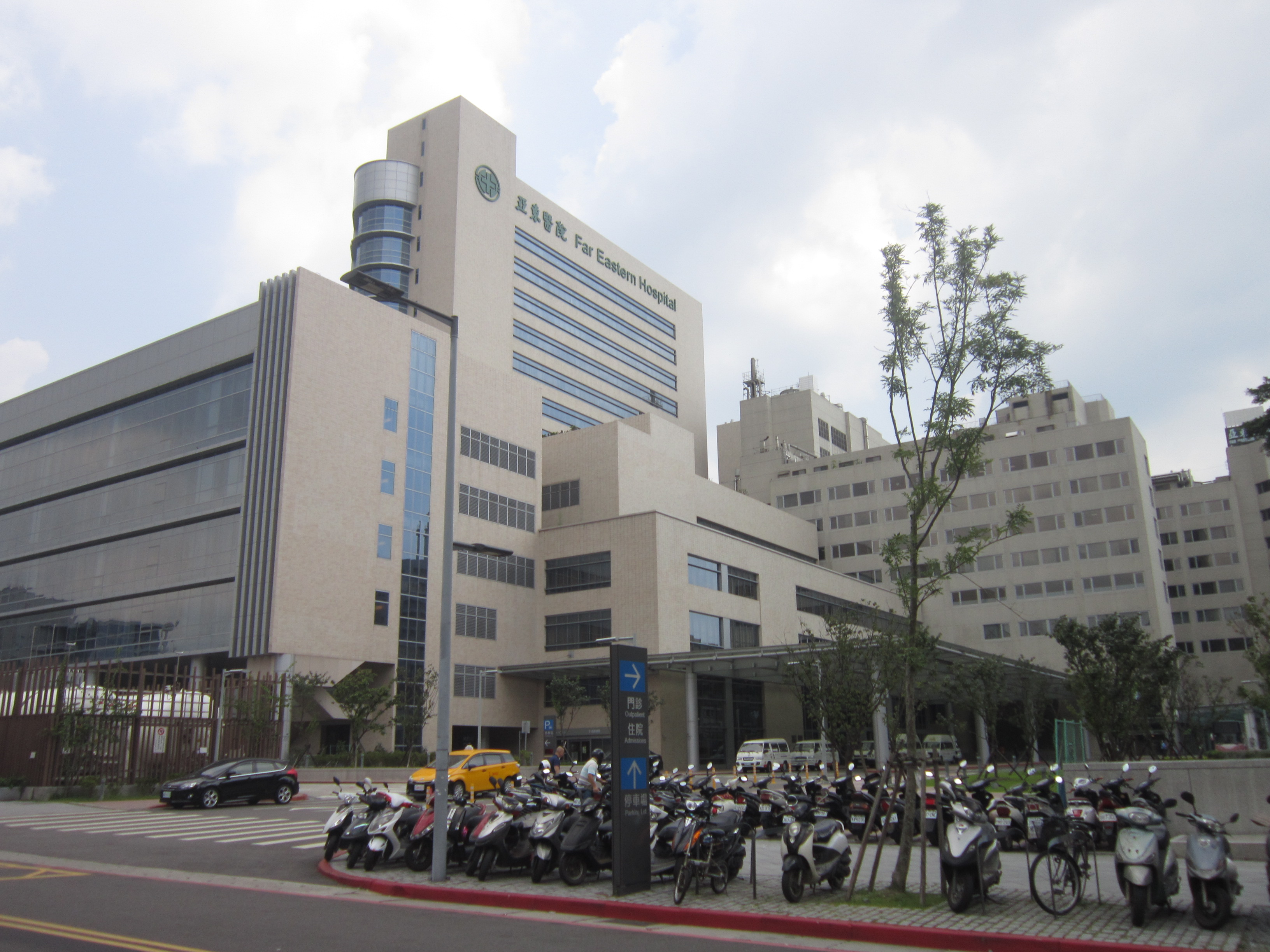 Far Eastern Memorial Hospital